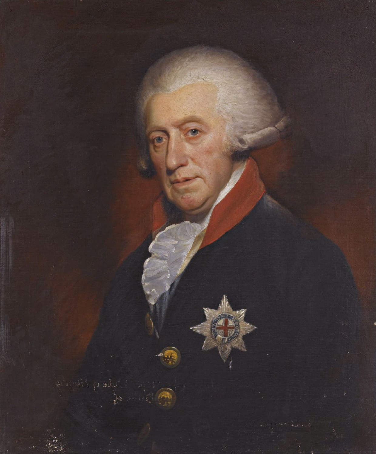 Portrait of George Montagu, 1st Duke of Montagu, 4th Earl of Cardigan (1712-1790) wearing Windsor Uniform and the badge of the order of the Garter